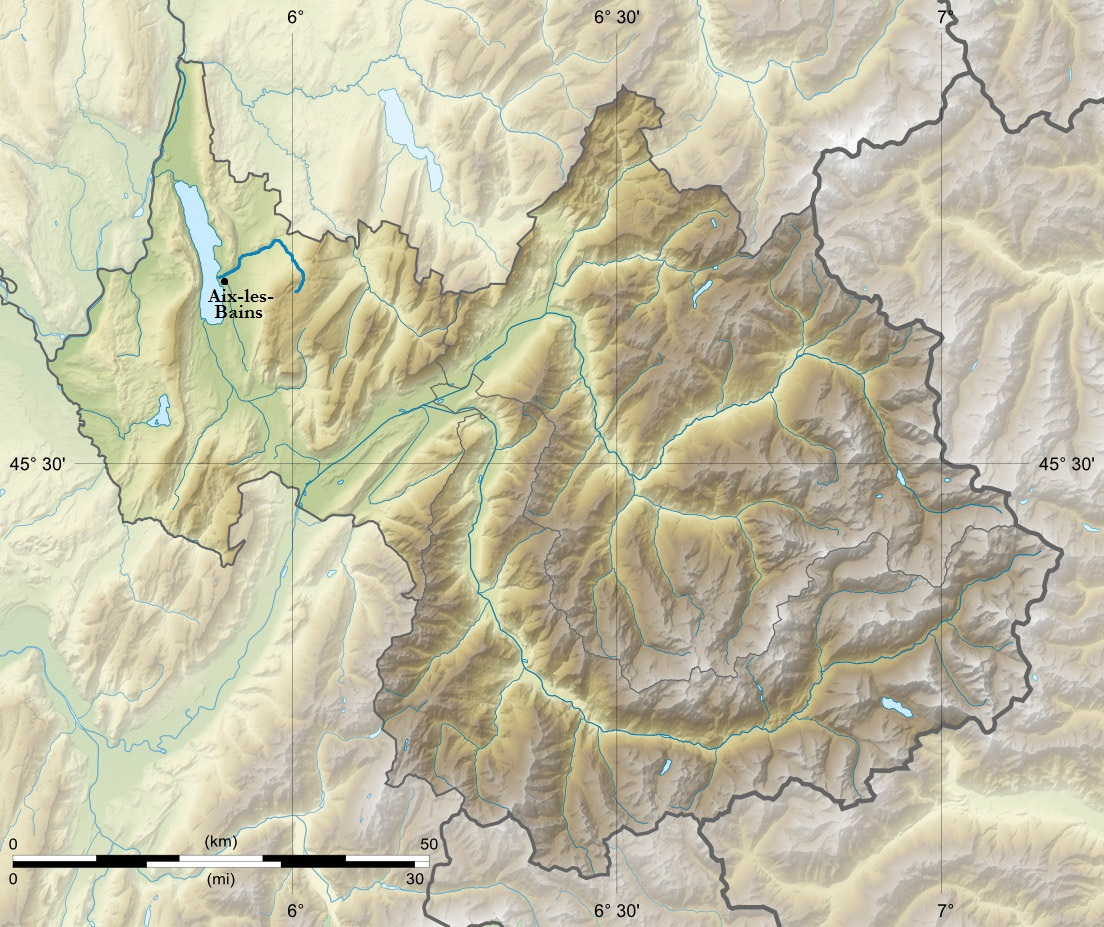 Physical map of the department of Savoie, France, focusing on river Sierroz, for geo-location purpose. Scale : 1:800,000 (precision : 200 m)